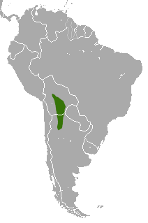 Buff-bellied Fat-tailed Mouse Opossum (Thylamys venustus) range